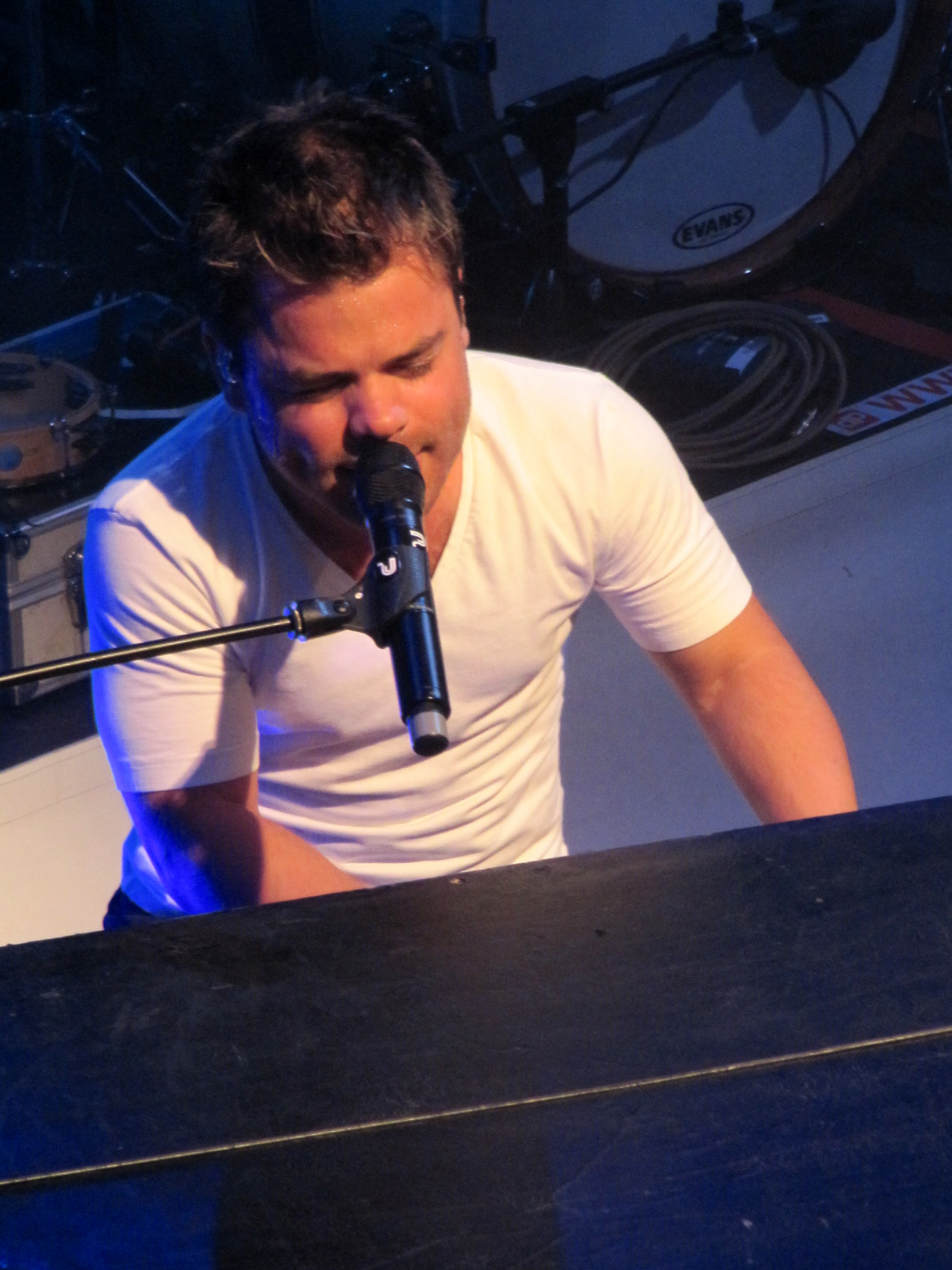 Roel van Velzen on the opening night of the 'Take Me In Tour' in Paradiso (Amsterdam), playing the piano and singing.